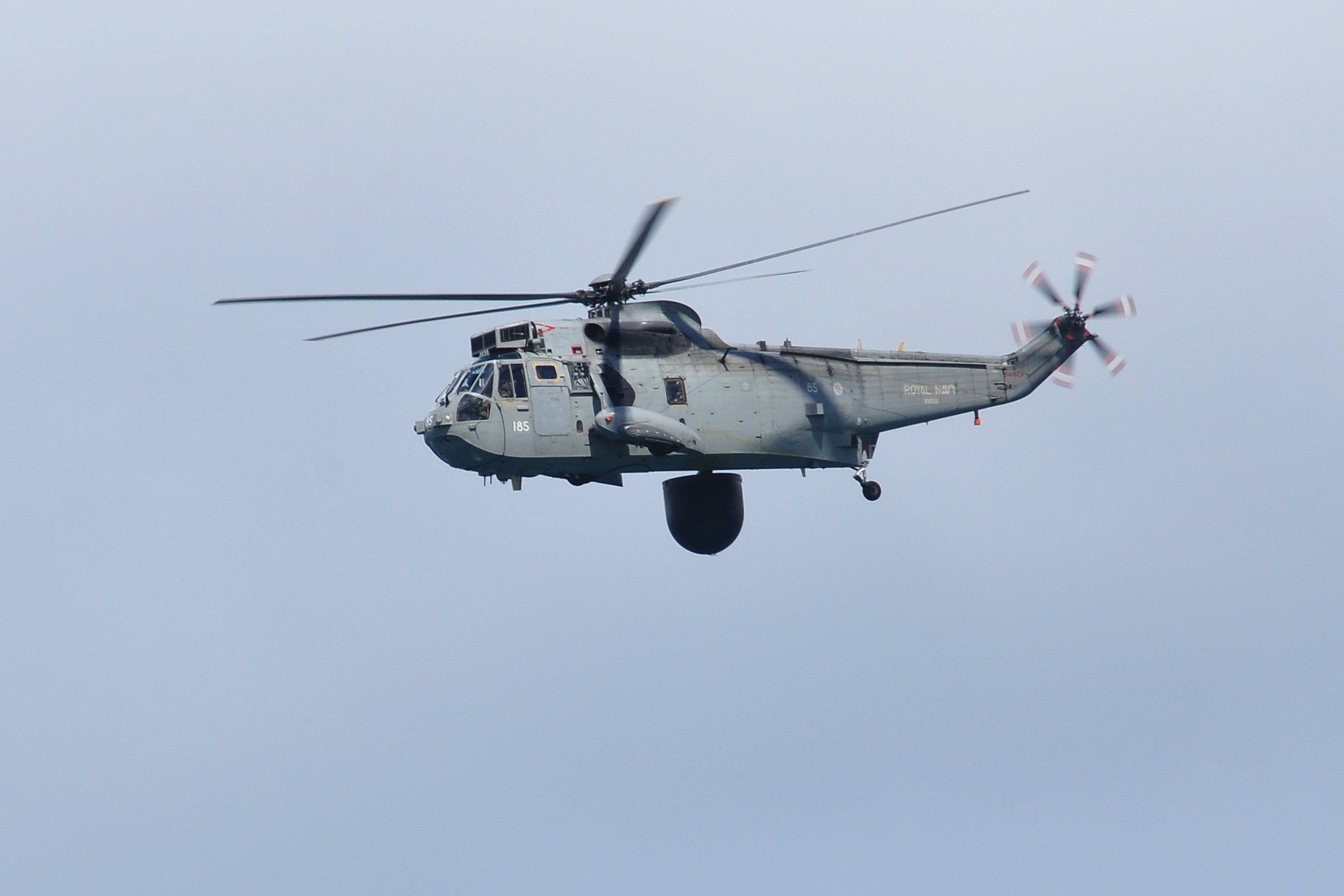 A Royal Navy Sea King, flying past Portreath in Cornwall